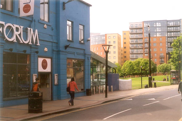 Division Street/Devonshire Green, Devonshire Quarter, Sheffield, England